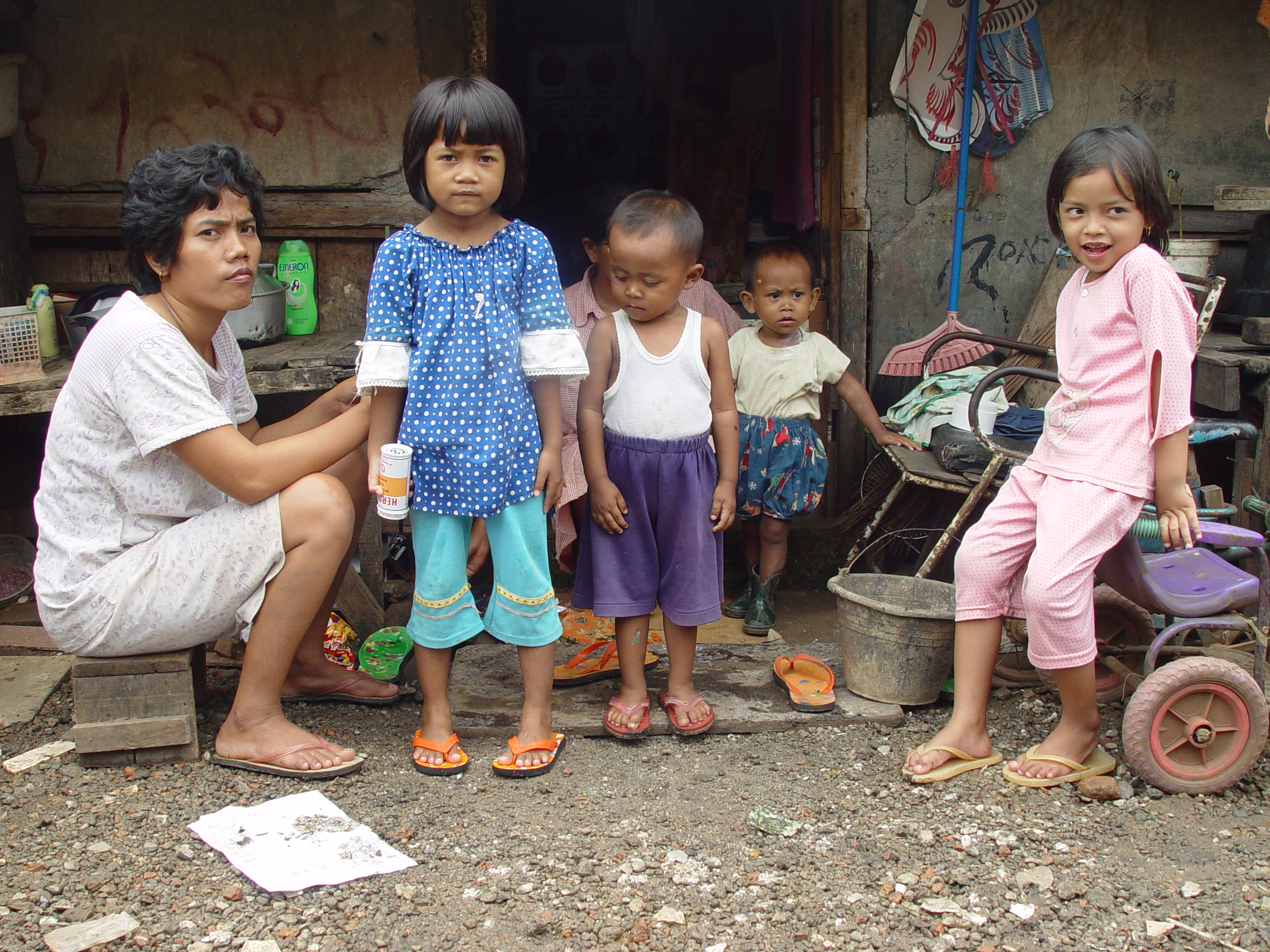 Slum life, Jakarta Indonesia.